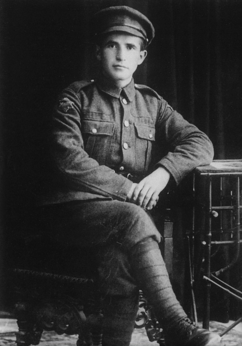 Private David Ben-Gurion, a volunteer in the Jewish Legion in 1918.